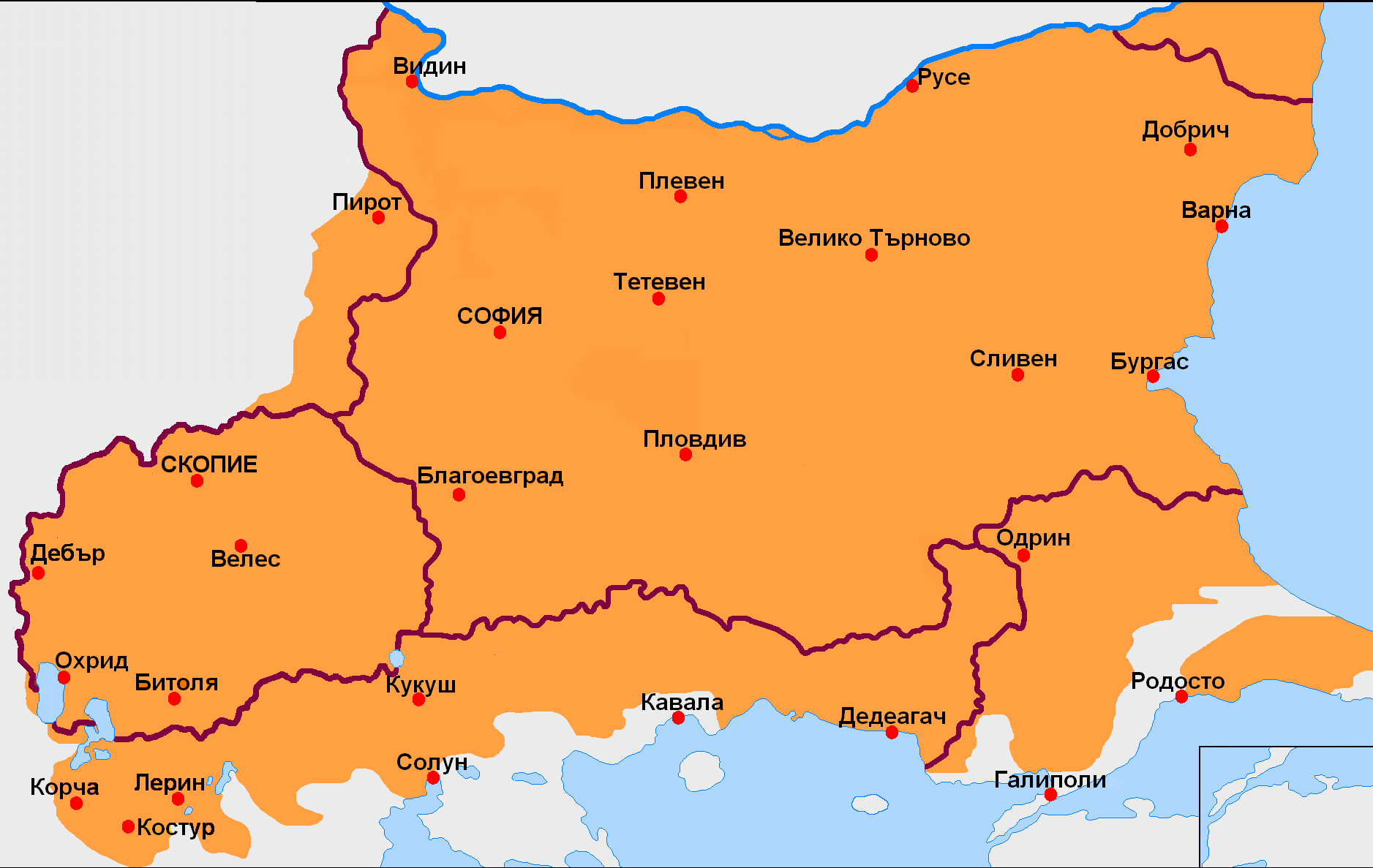 Map of the Bulgarian dialect continuum (without diaspora)